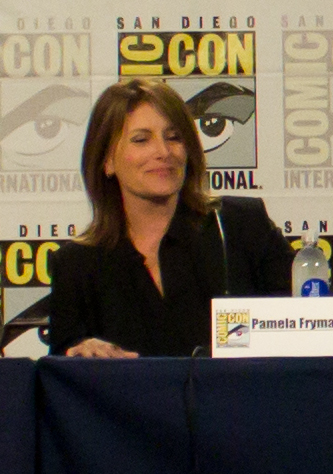 How I Met Your Mother